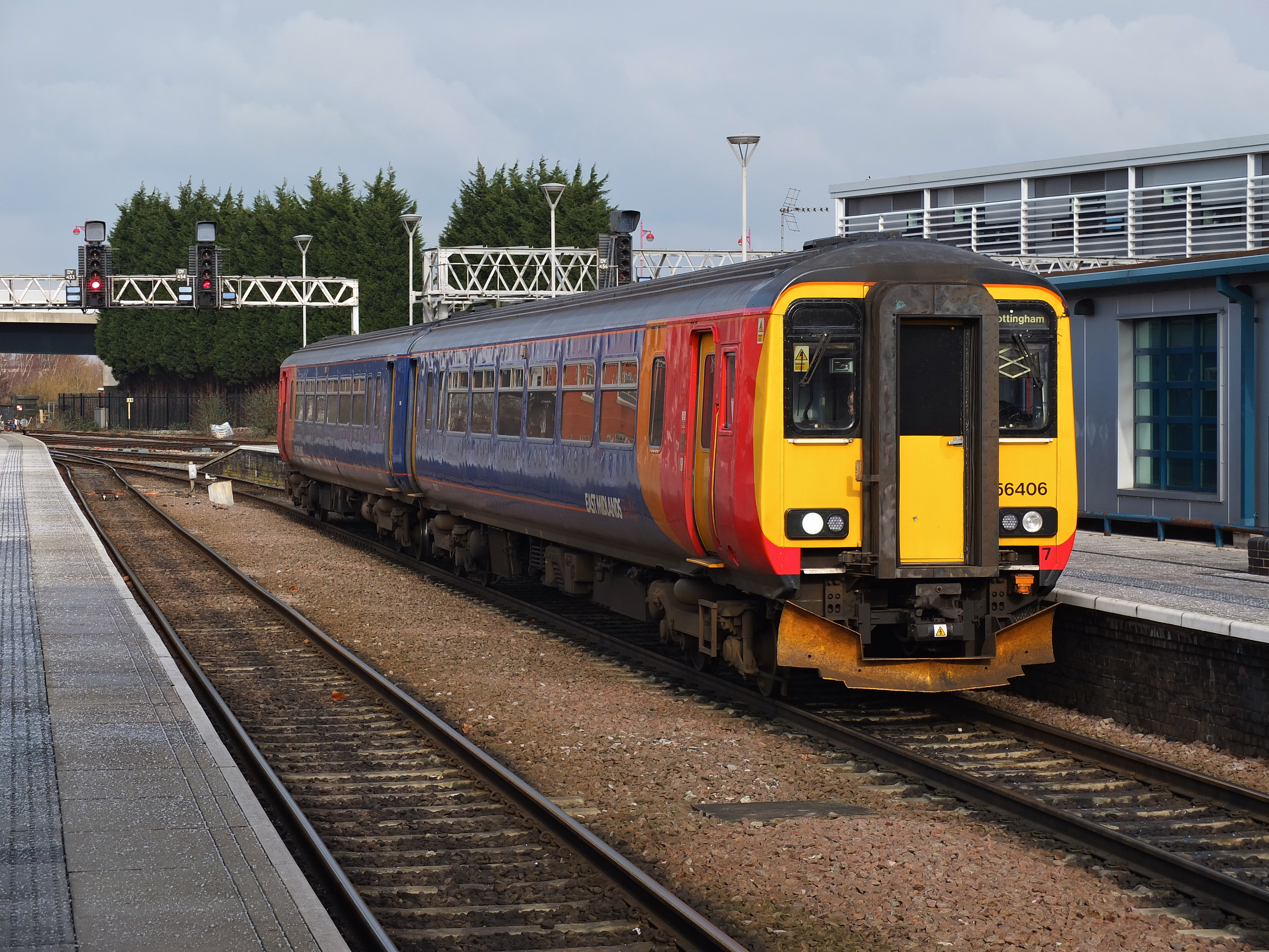 156406 calls at Derby with a Matlock - Nottingham service